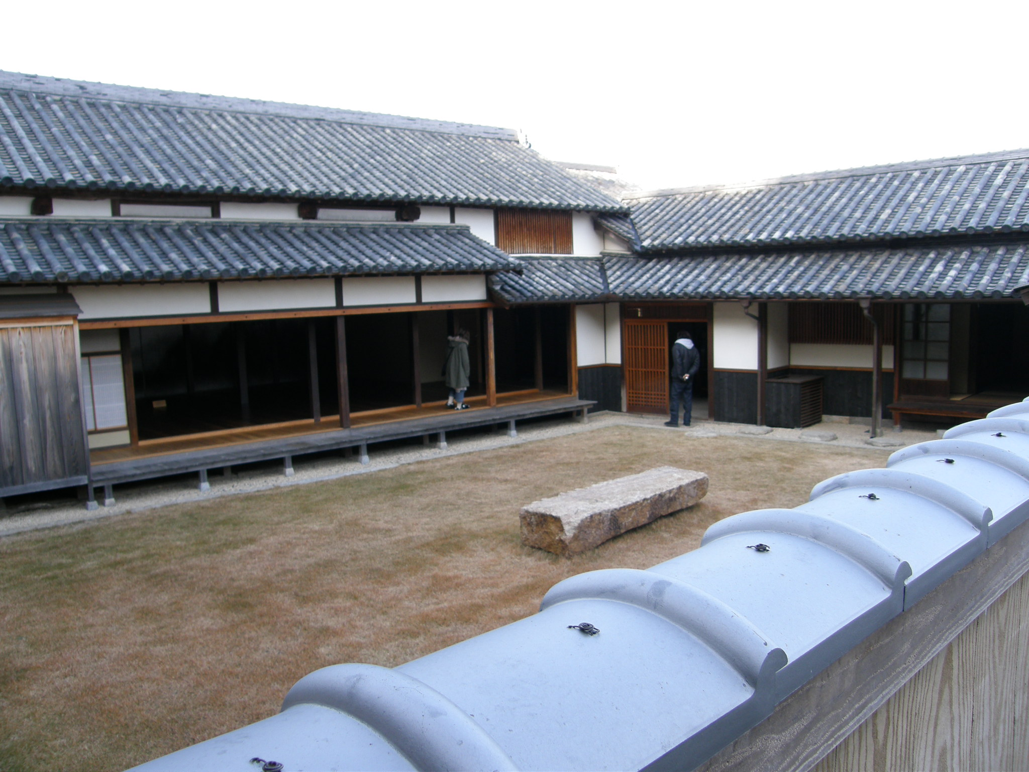 Art house project in Naoshima, Ishibashi